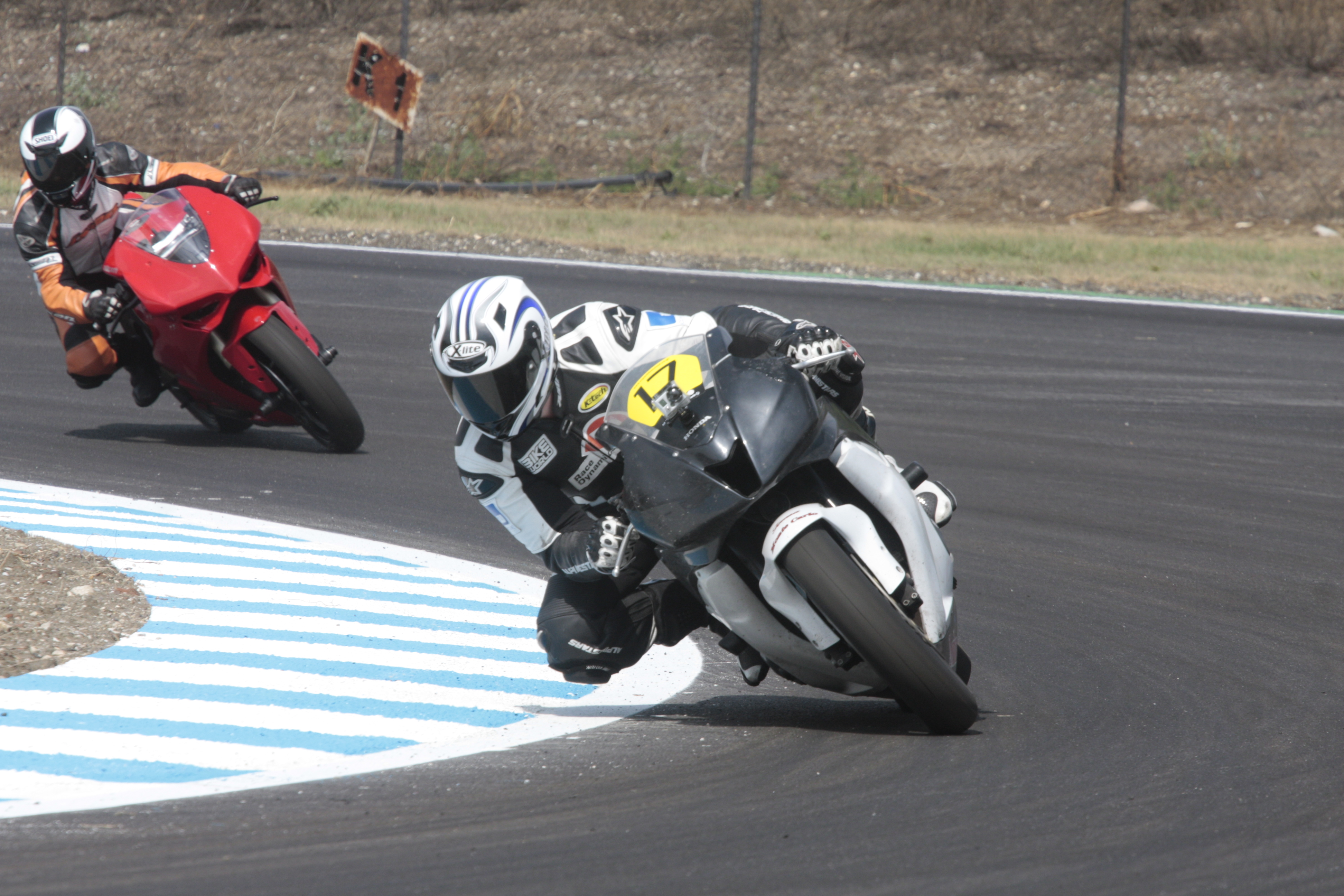 Race Dynamics on-track leading a student